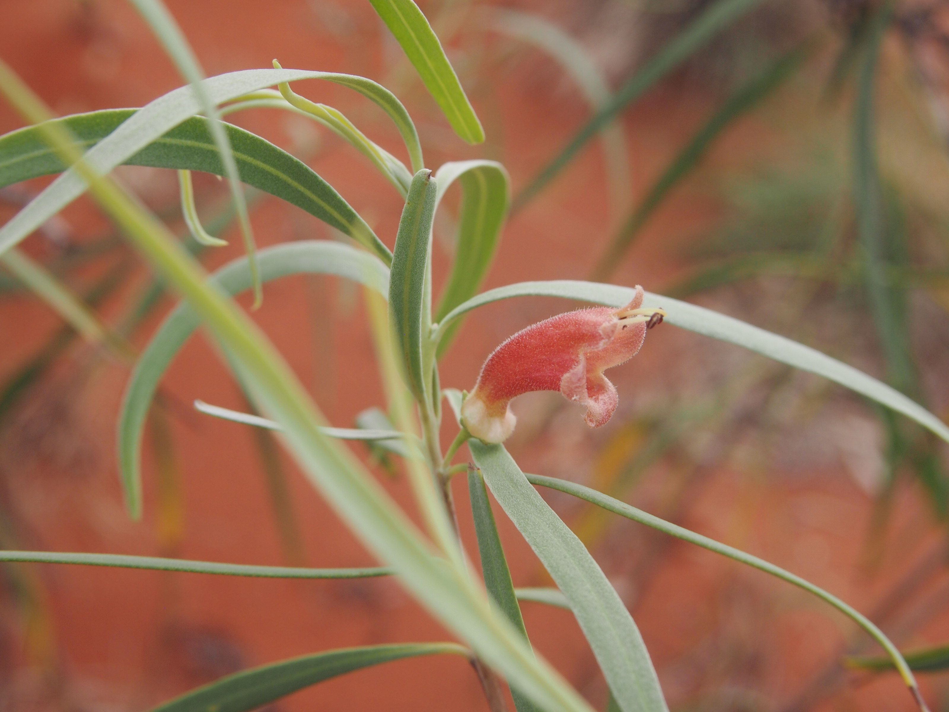 Eremophila longifolia flower